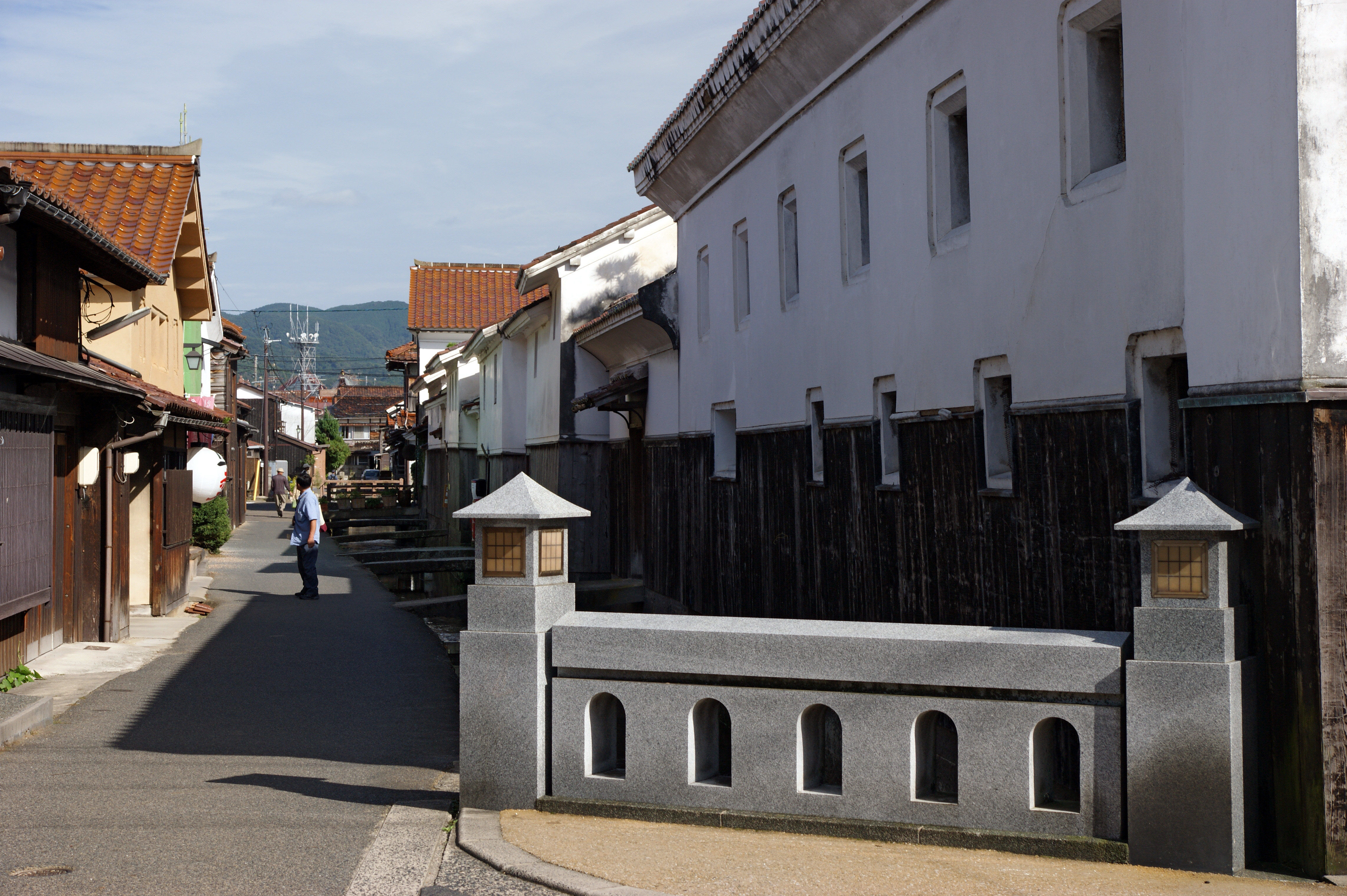 Utsubuki-tamagawa in Kurayoshi, Tottori prefecture, Japan